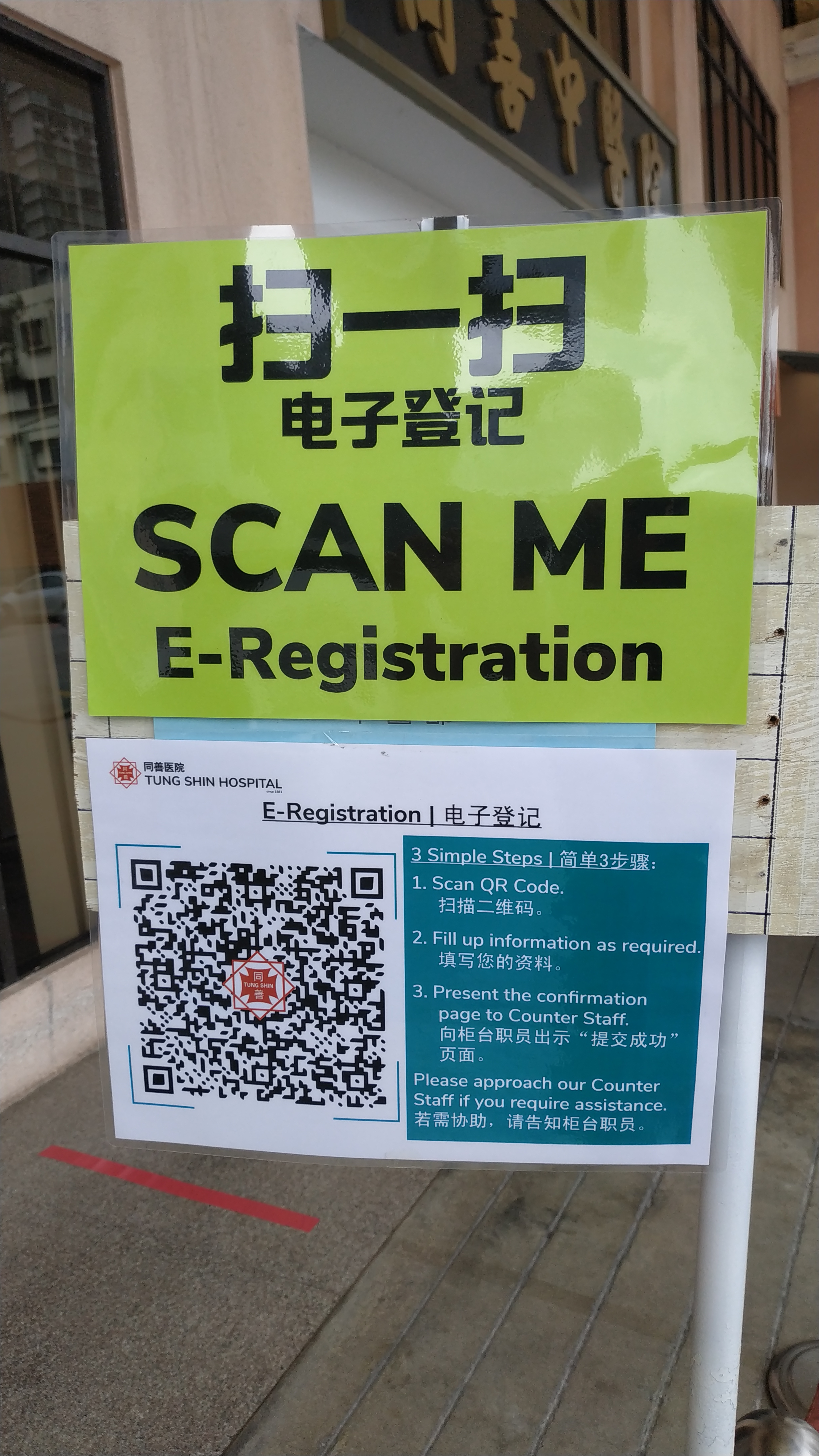 Patients and visitors need to fill out an online form in order to register before entering the hospital. QR code leads to this URL